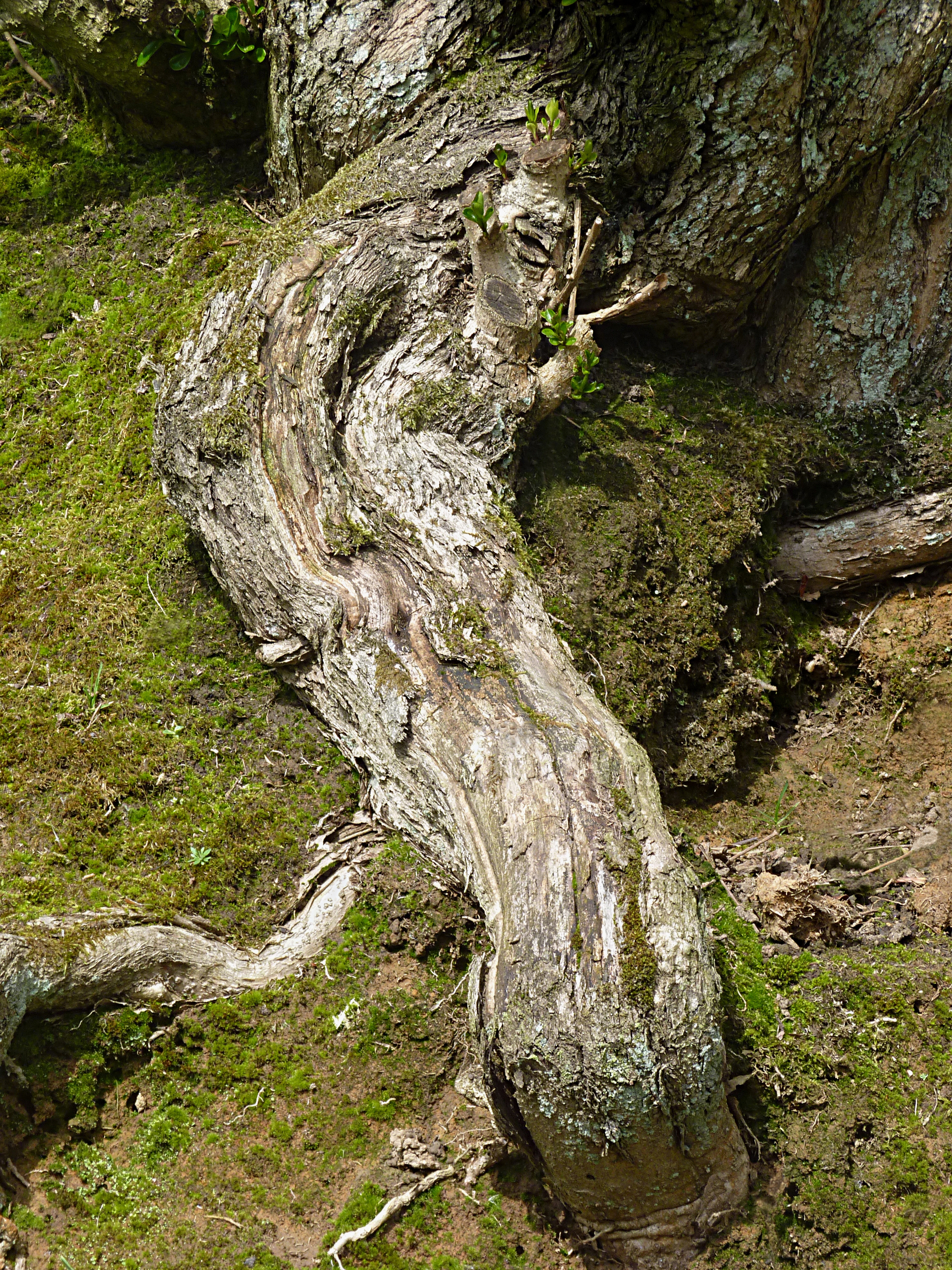 Roots of Ligustrum ovalifolium, in the municipal park of Mouscron (Belgium).